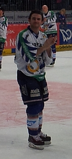 Ken Magowan, ice hockey player, forward